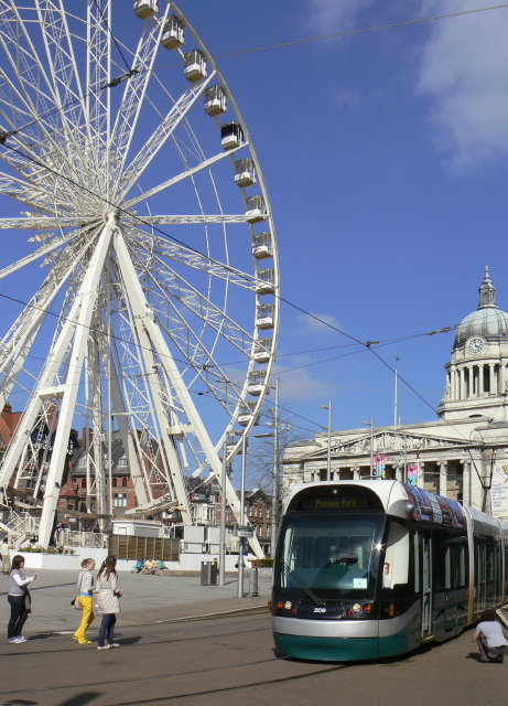 "the big wheel" in Nottingham Written like this, 'the big wheel' is Nottingham's programme for promoting the use of sustainable transport, of which the tram is an integral part. Behind can be seen the Wheel of Nottingham, on its 2009 visit to the city.